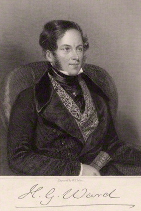 Portrait of Sir Henry George Ward (1797–1860), English diplomat, politician, and colonial adminstrator